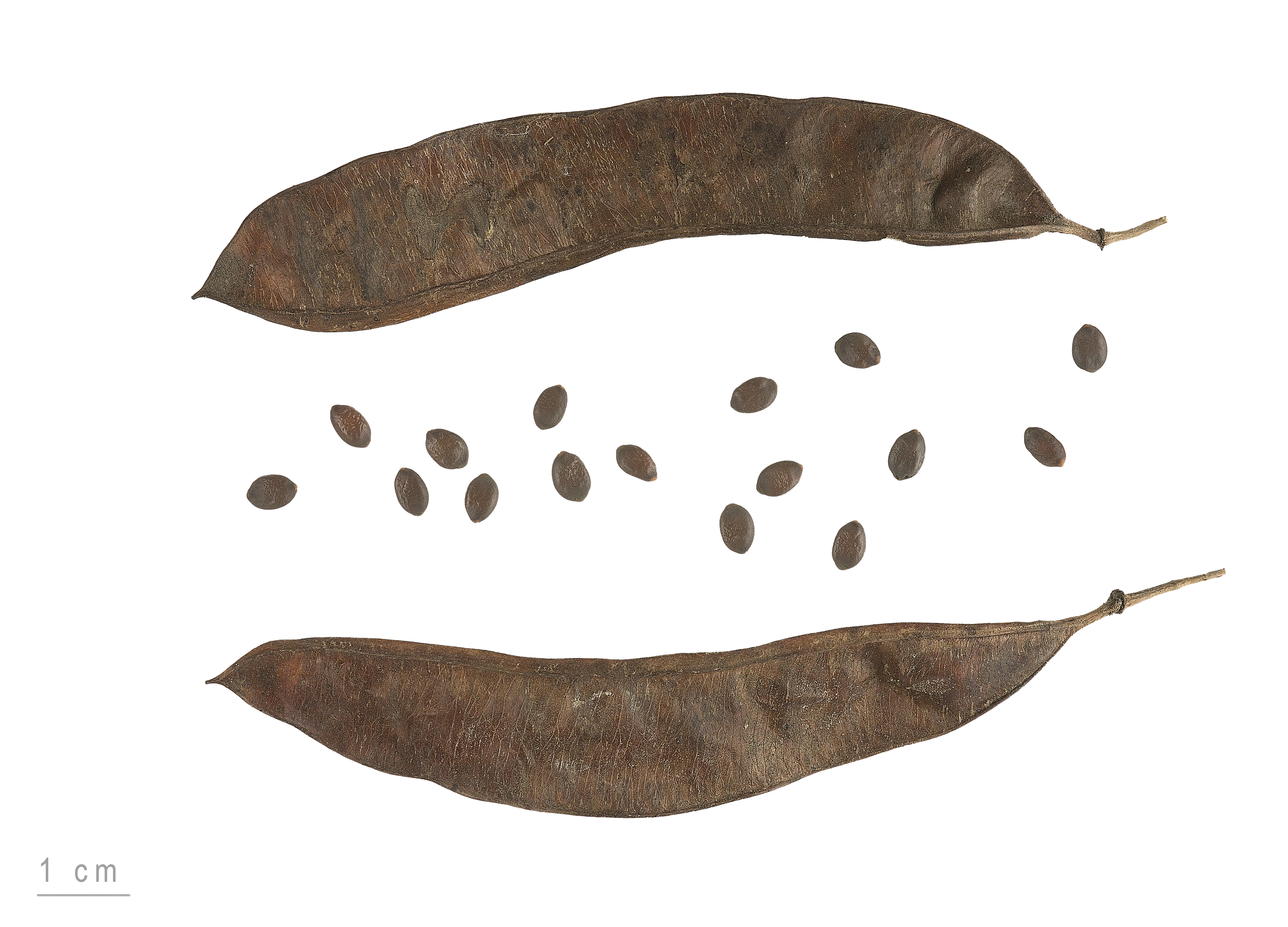 Judas tree , fruits and seeds